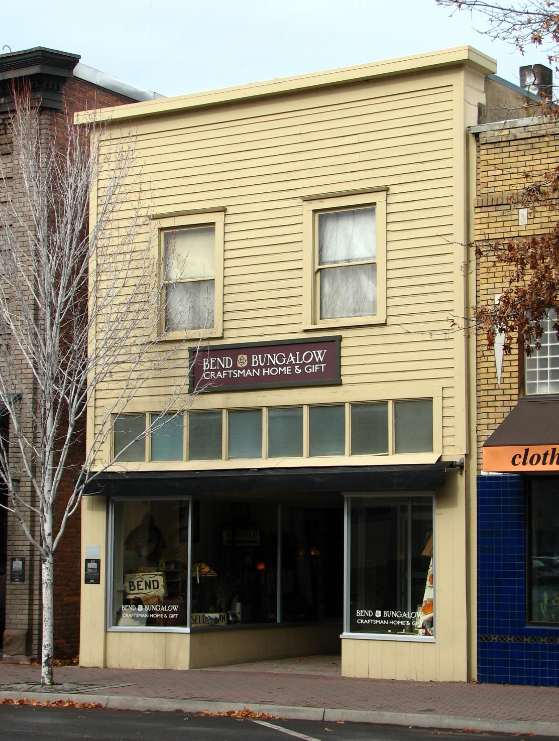 The historic N. P. Smith Pioneer Hardware Store (built 1909), located at 935–937 Northwest Wall Street in Bend, Oregon, United States, is listed on the US National Register of Historic Places.